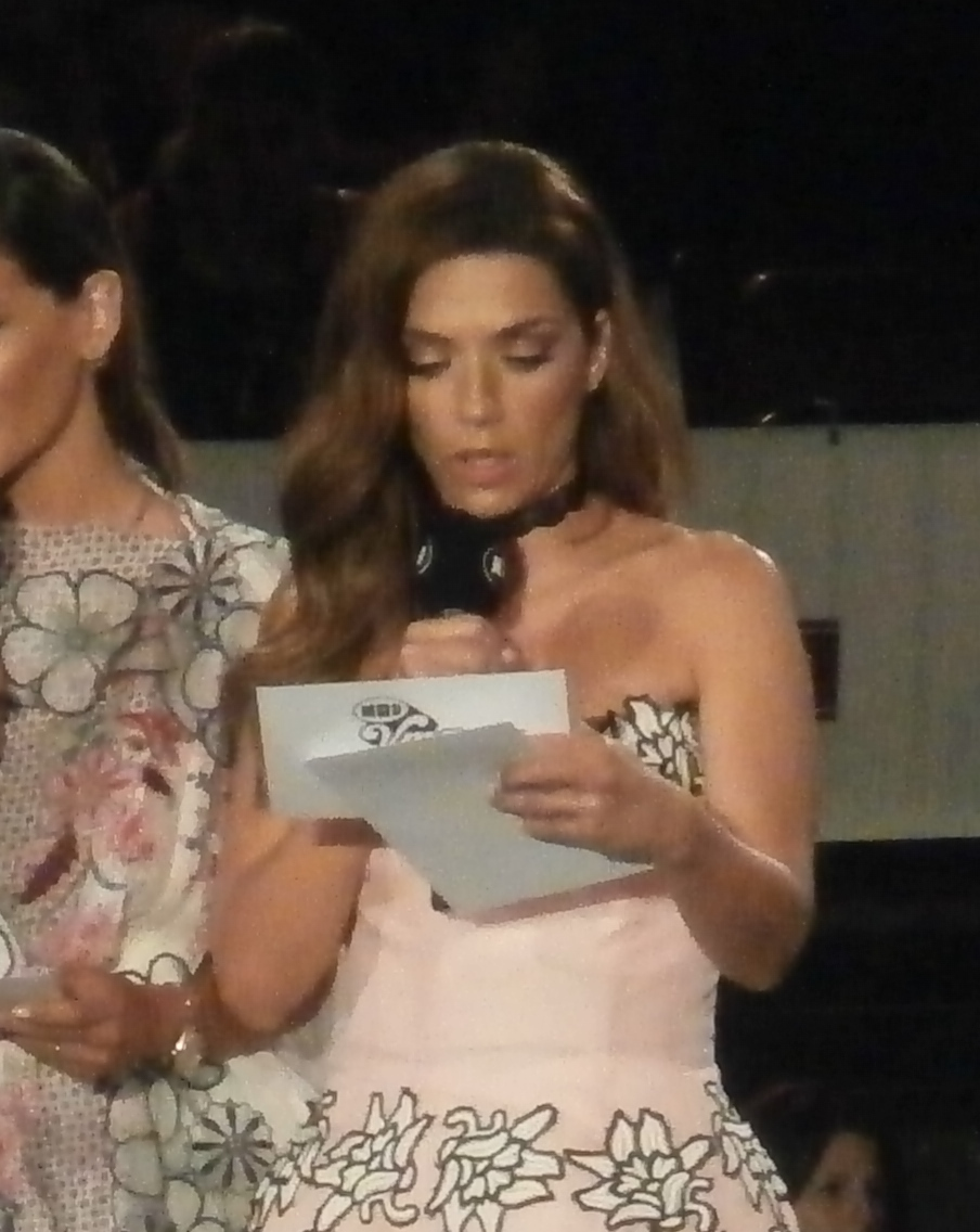 Vaso Laskaraki at MAD Video Music Awards 2017, ready to announce an award.